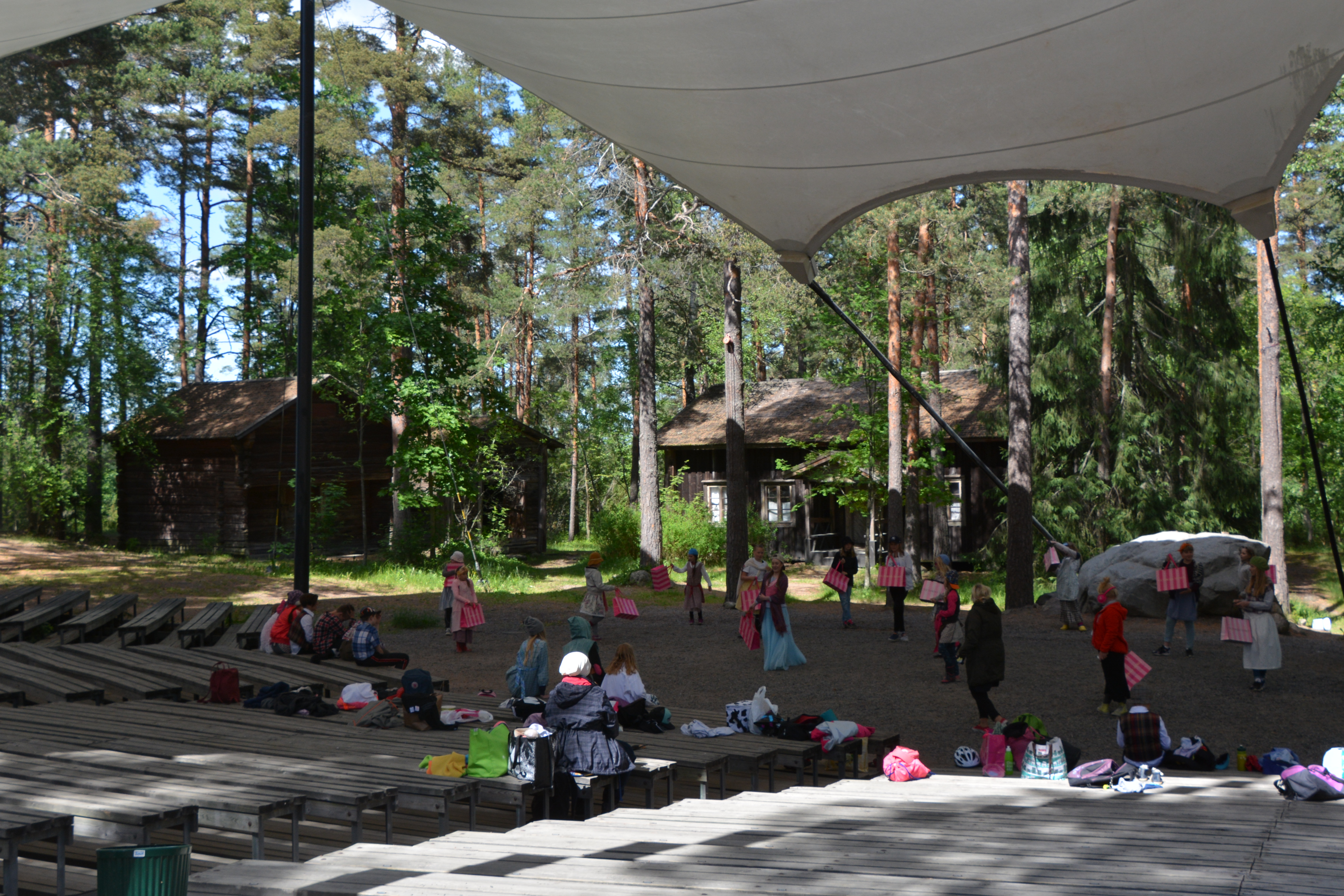 Taborberger outdoor museum, Palojoki, Nurmijärvi, Finland. Rehearsal at the outdoor theatre scene